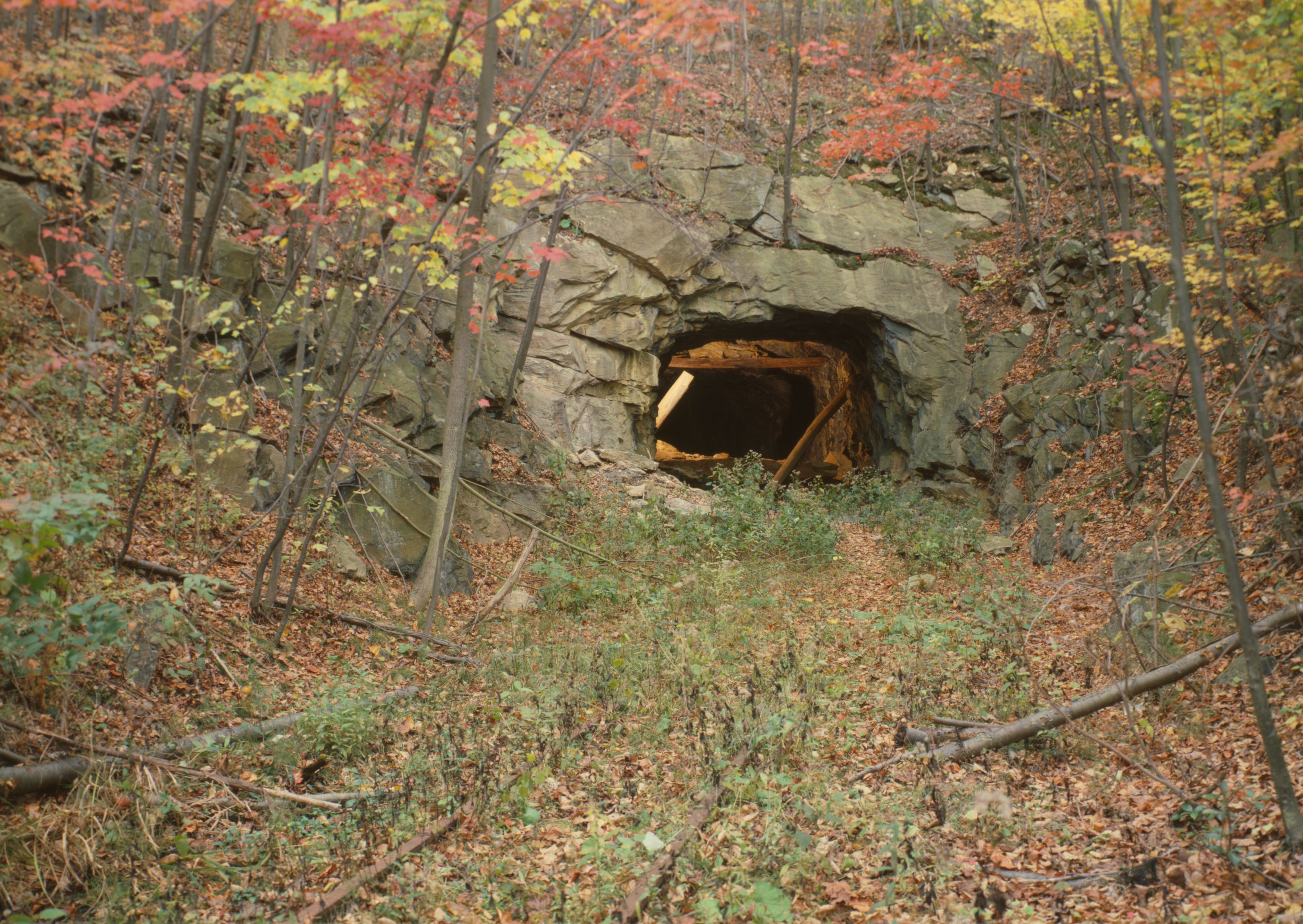 East Broad Top Railroad and Coal Company, Sideling Hill Tunnel, Rockhill, Huntingdon County, PA